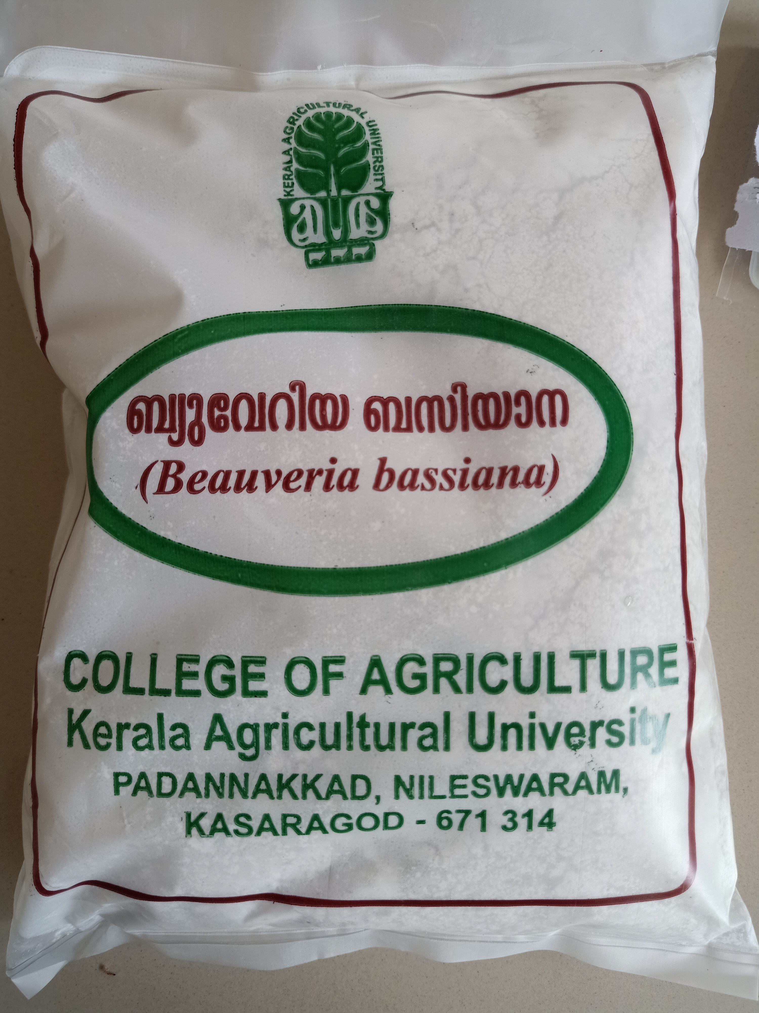 Packet containing Beauveria bassiana